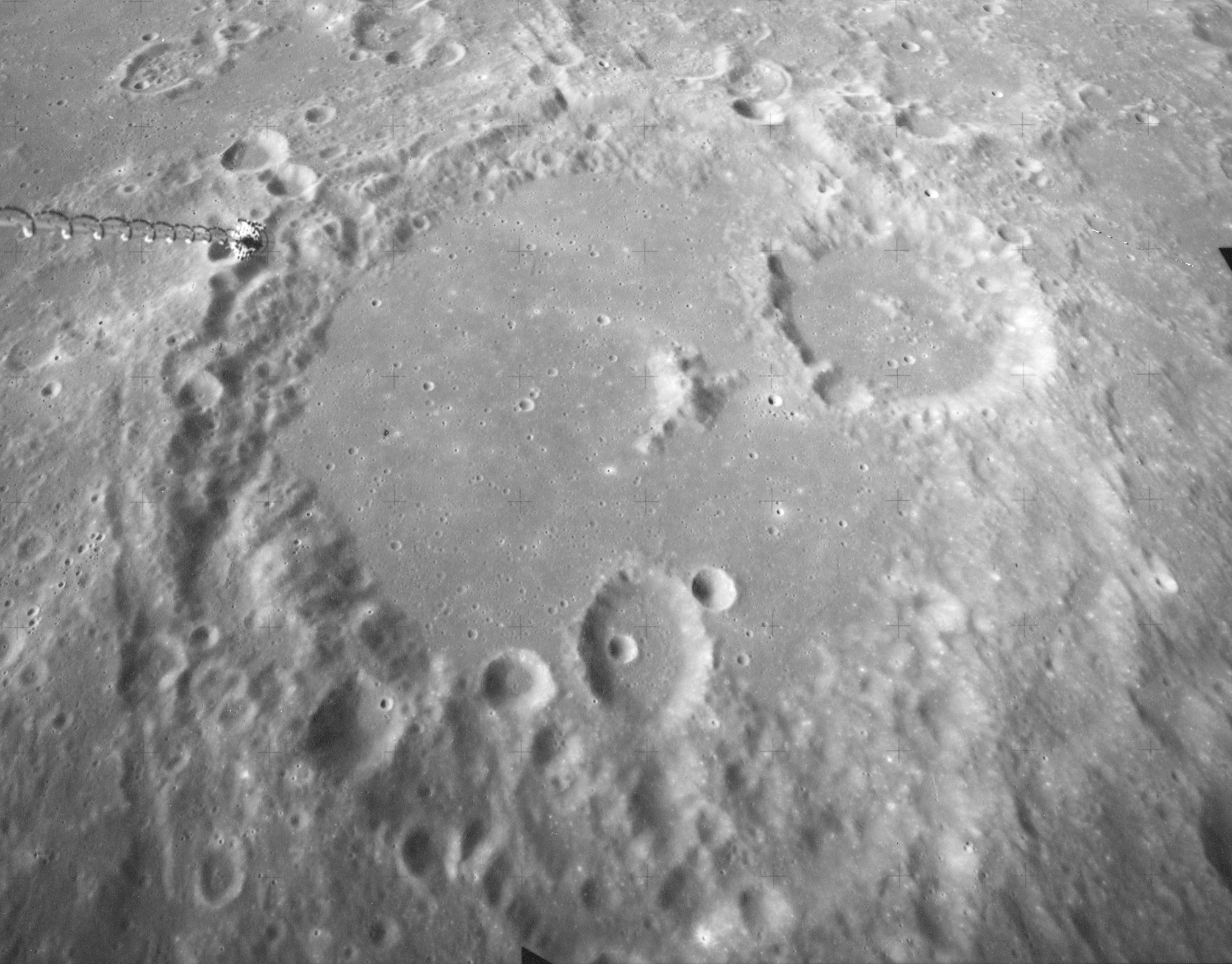 Oblique view of Albategnius, on the moon, facing souuth. Object in upper left is the gamma-ray spectrometer of the spacecraft. From Revolution 48, altitude 119 km, sun elevation 35 deg.